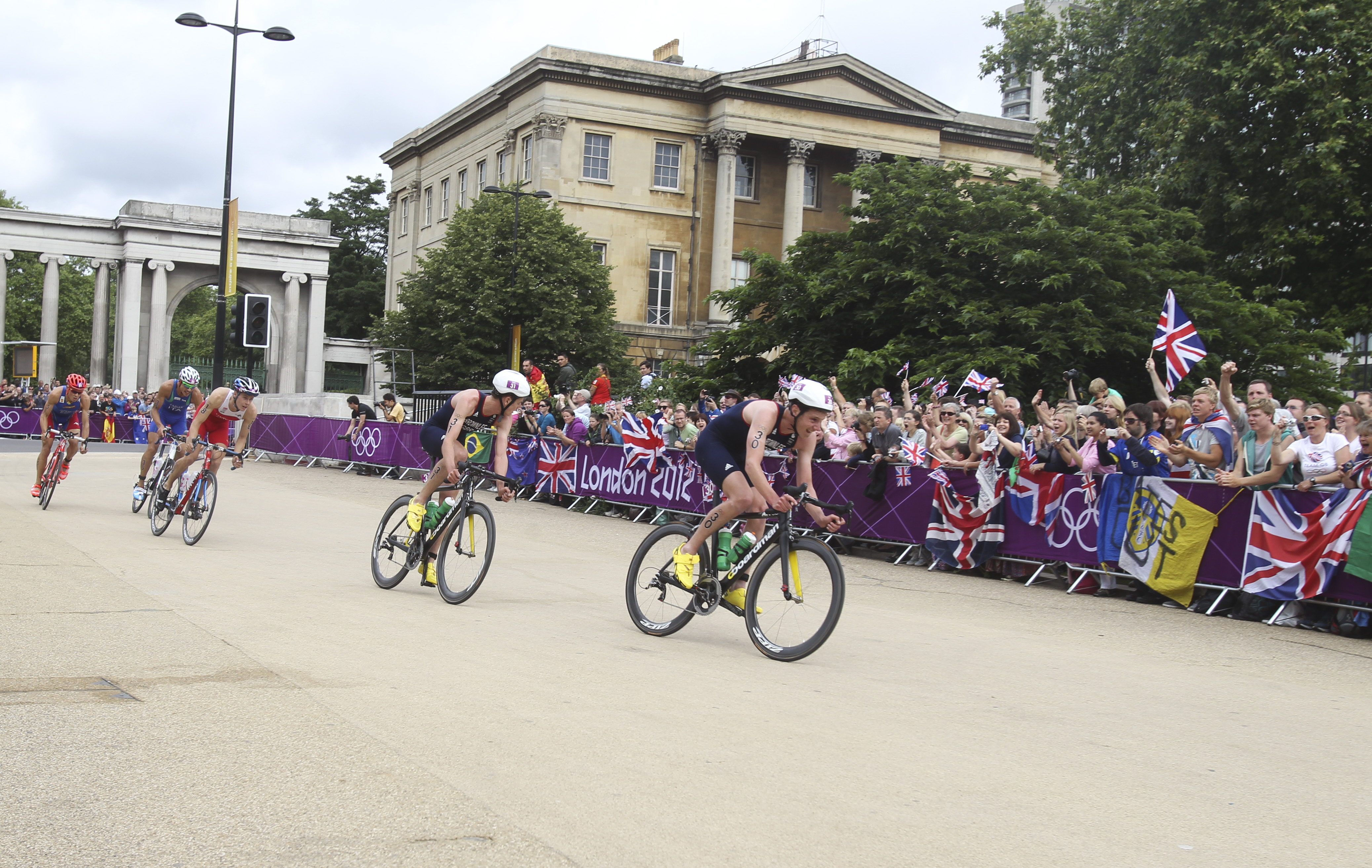 07.08.12 Action from the Triathlon Picture by David Poultney